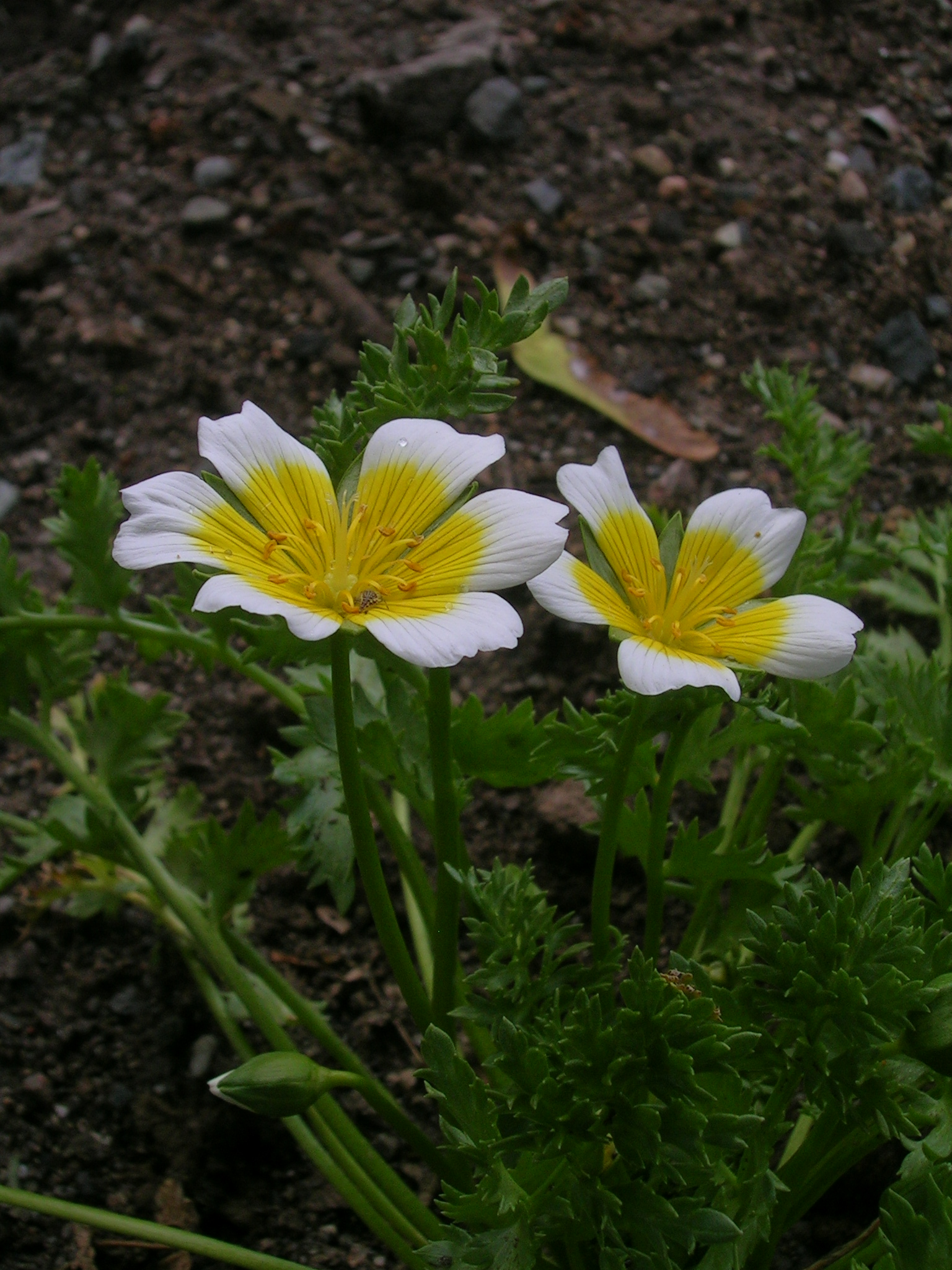 Limnanthes douglasii, photographed in collection of Oslo Botanical garden